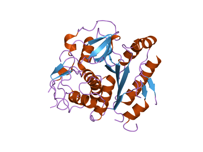 Cartoon representation of the molecular structure of protein registered with 2cy7 code.